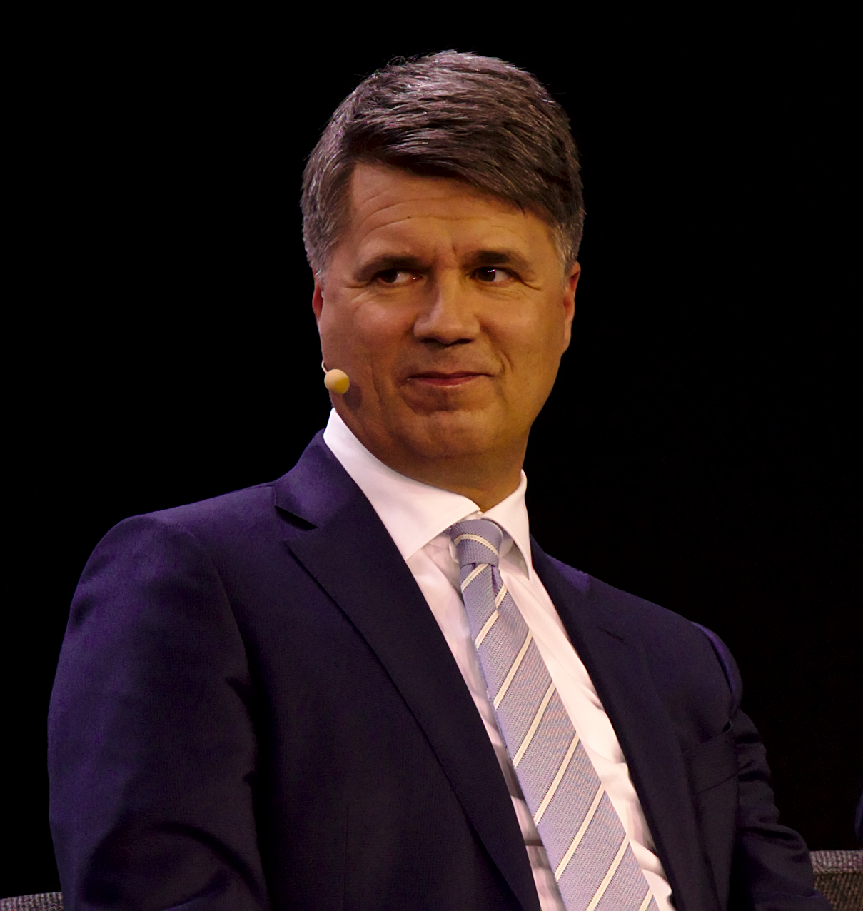 Harald Krüger at Geneva Motorshow 2018